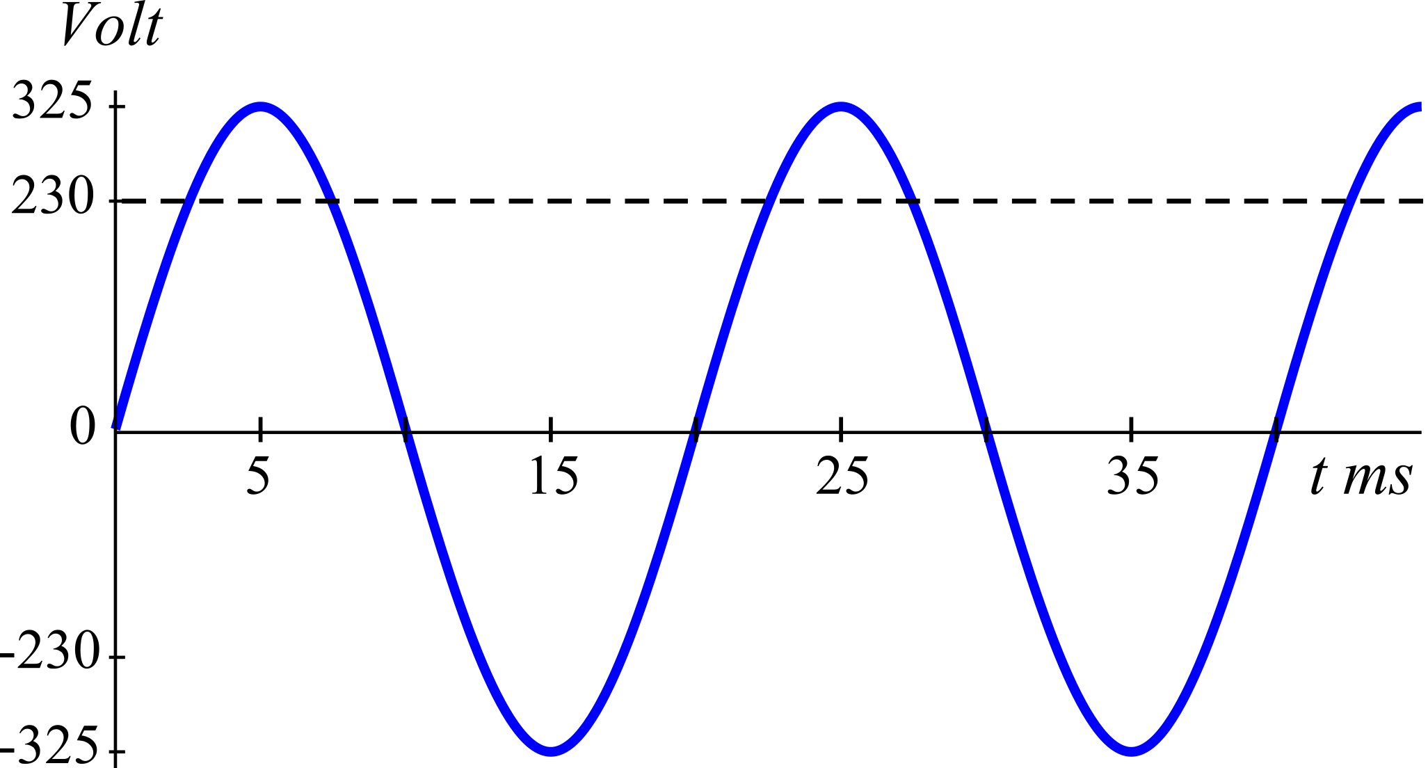 The 50 Hz standard voltage